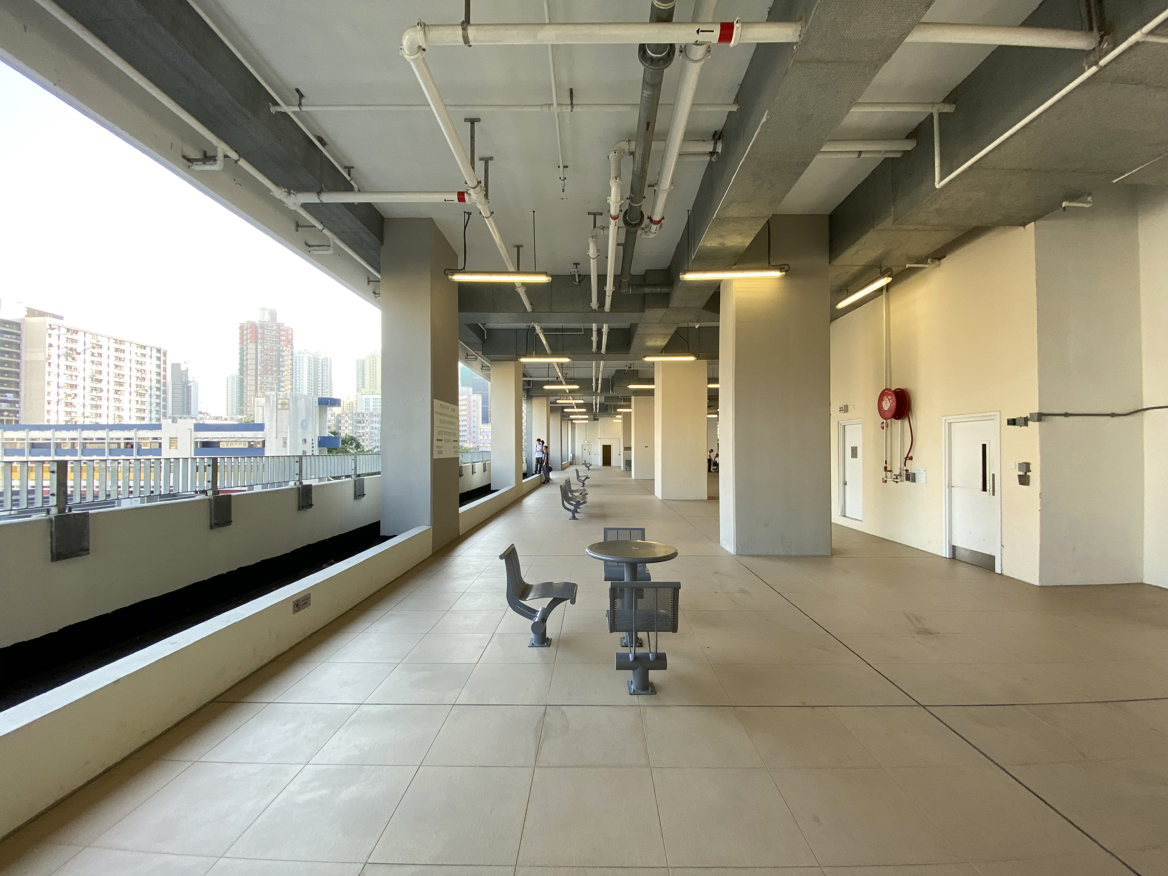 So Uk Estate Camella House indoor space